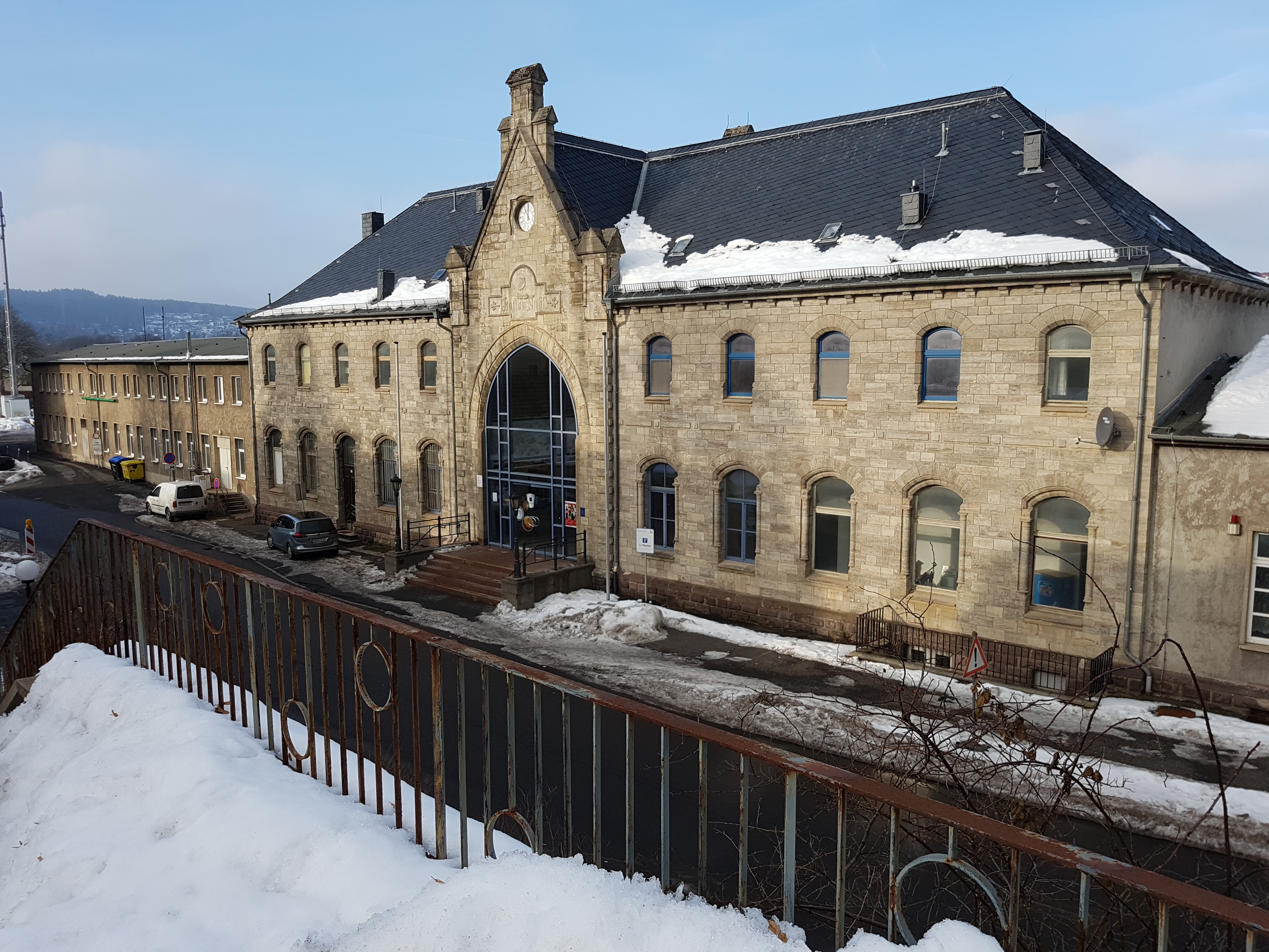 Train Station of the City Suhl.